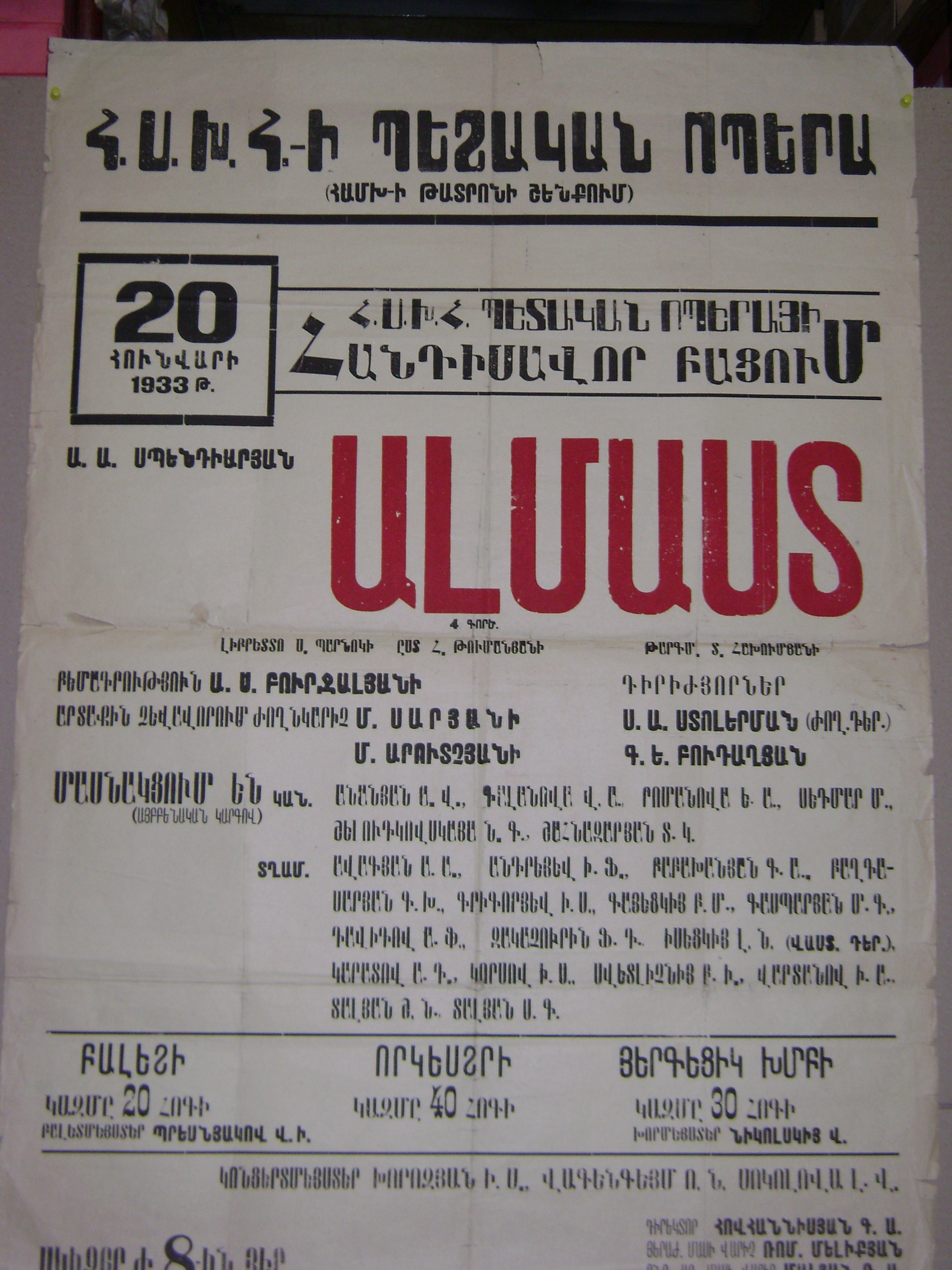 Davit Bek opera poster, January 20, 1933, Yerevan Opera Theatre